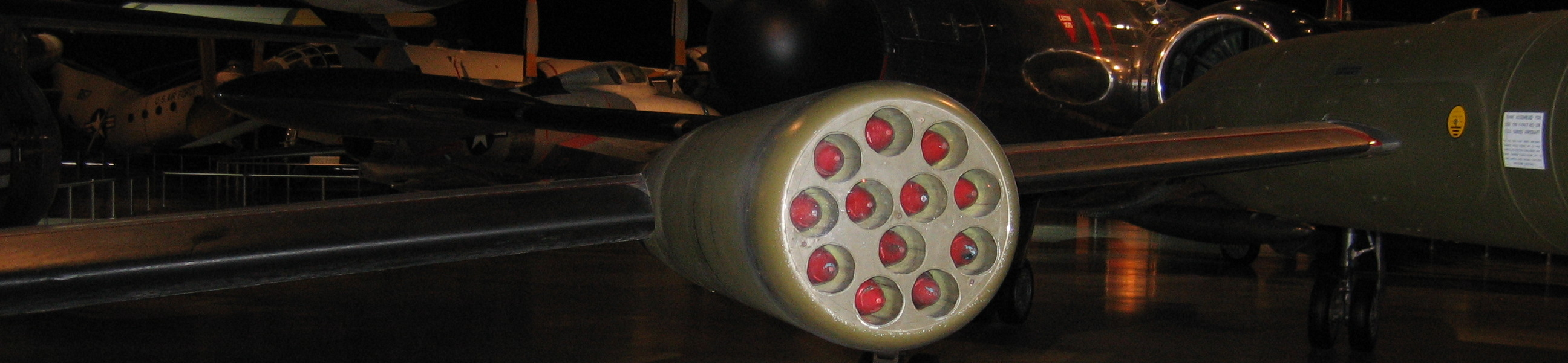 Wing-mounted rocket pod of a F-94C at the National Museum of the United States Air Force, Dayton, Ohio